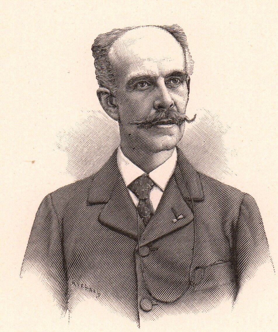 French writer and politician Gabriel-Paul Othenin d'Haussonville (1843-1924)